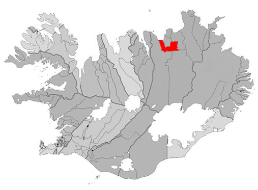 Based on Municipalities of Iceland.png.